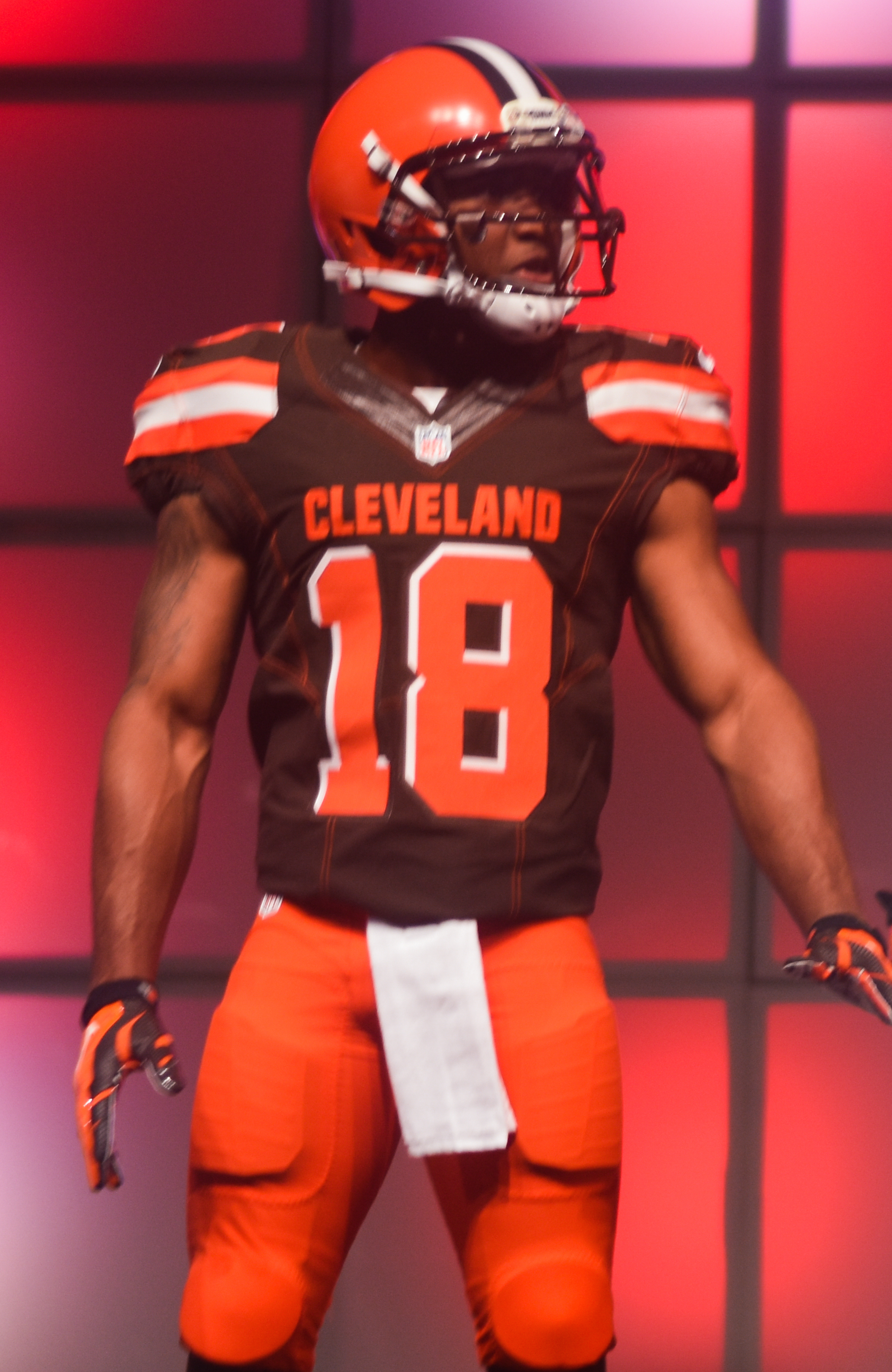 Cleveland Browns New Uniform Unveiling